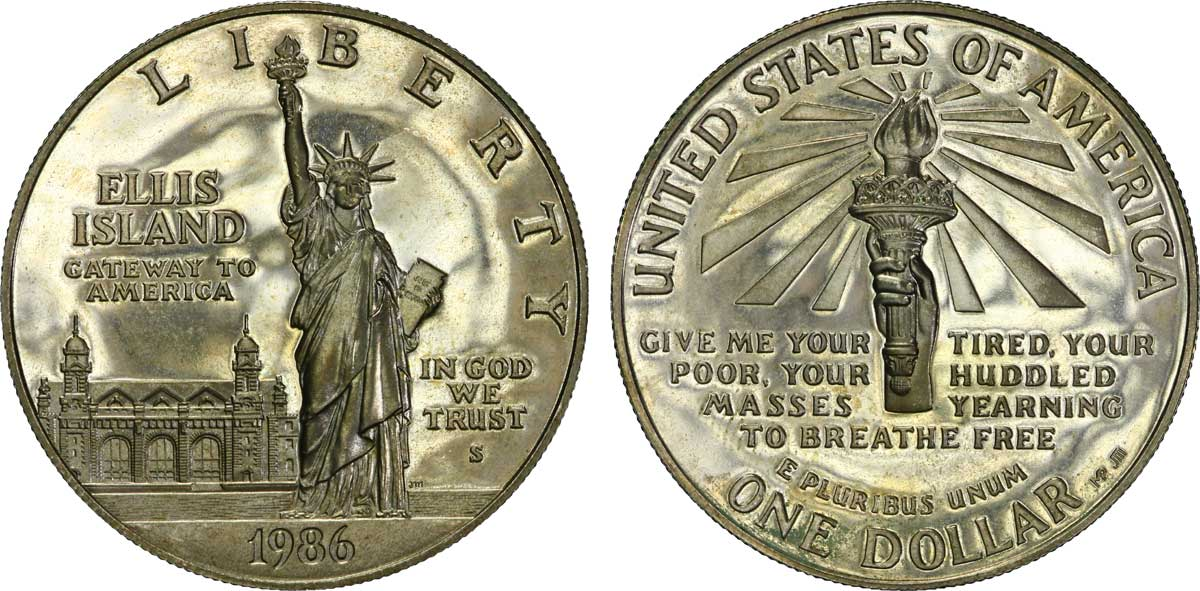 Dollar américain de 1986, édition limitée représentant la statue de la liberté et le bâtiment principal d’Ellis Island